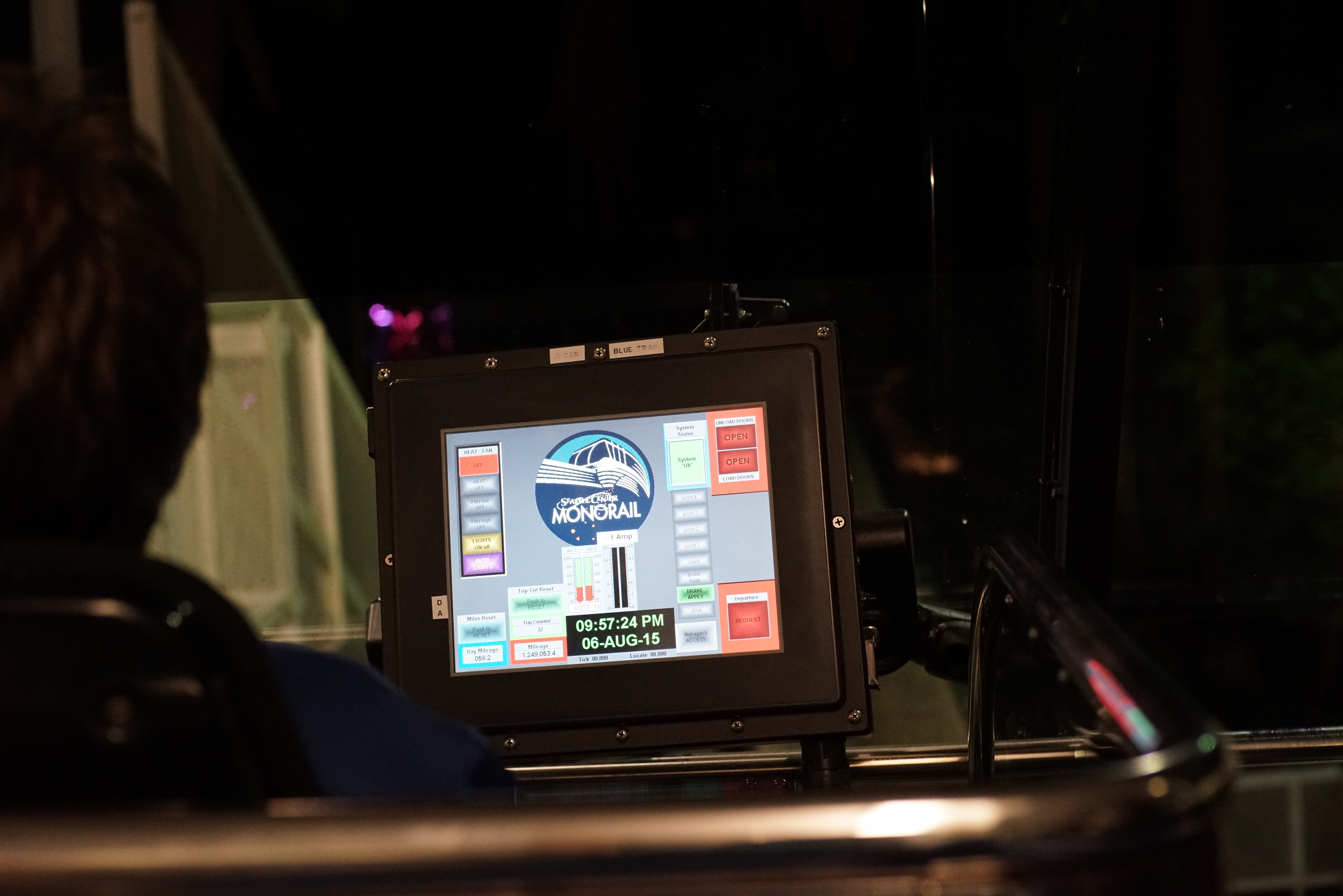 Driver controls of the Seattle Monorail.